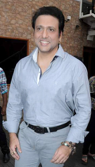 Govinda at Bright Advertising Awards announcement